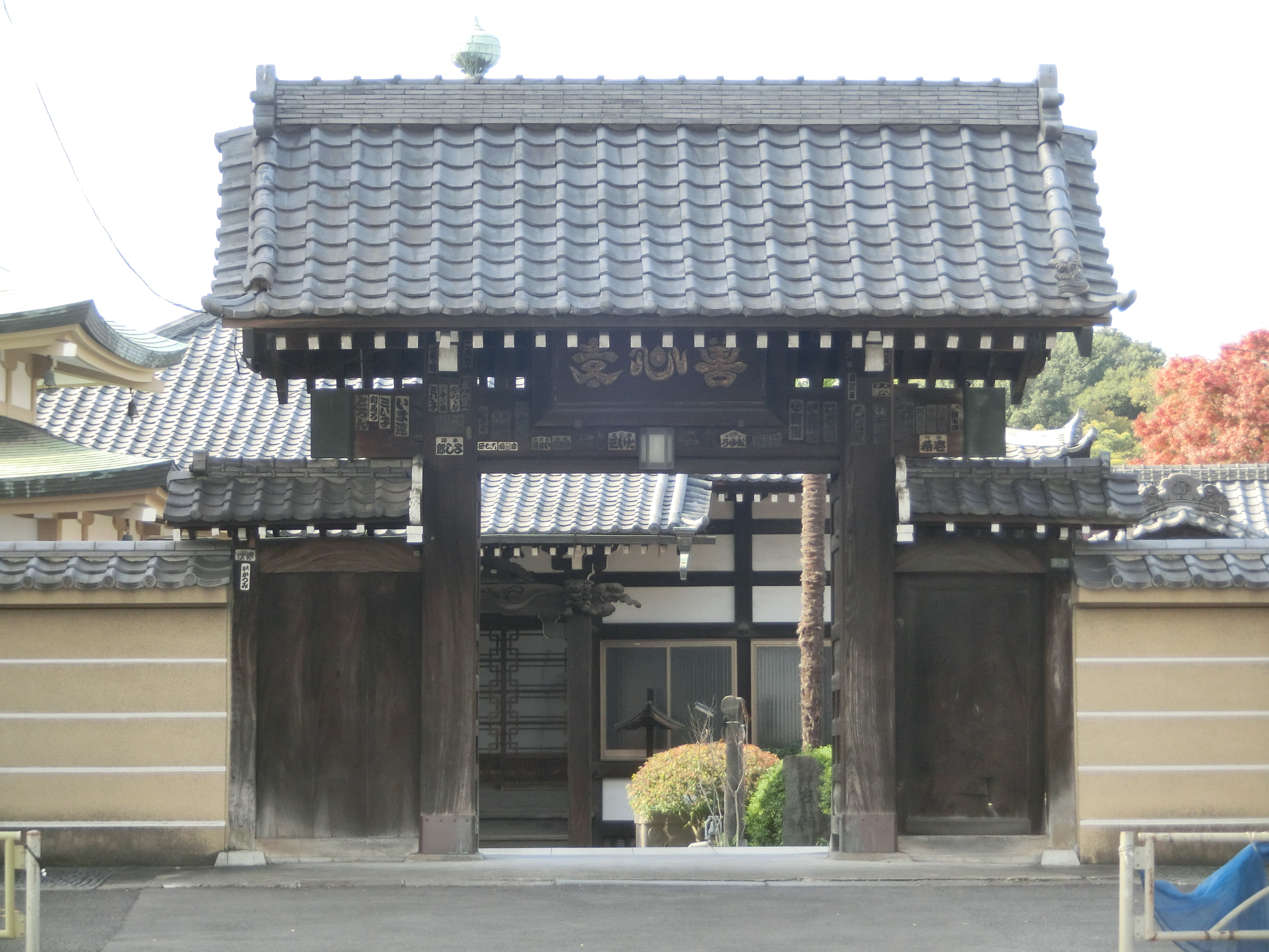 Zenshin-ji (Bunkyo)